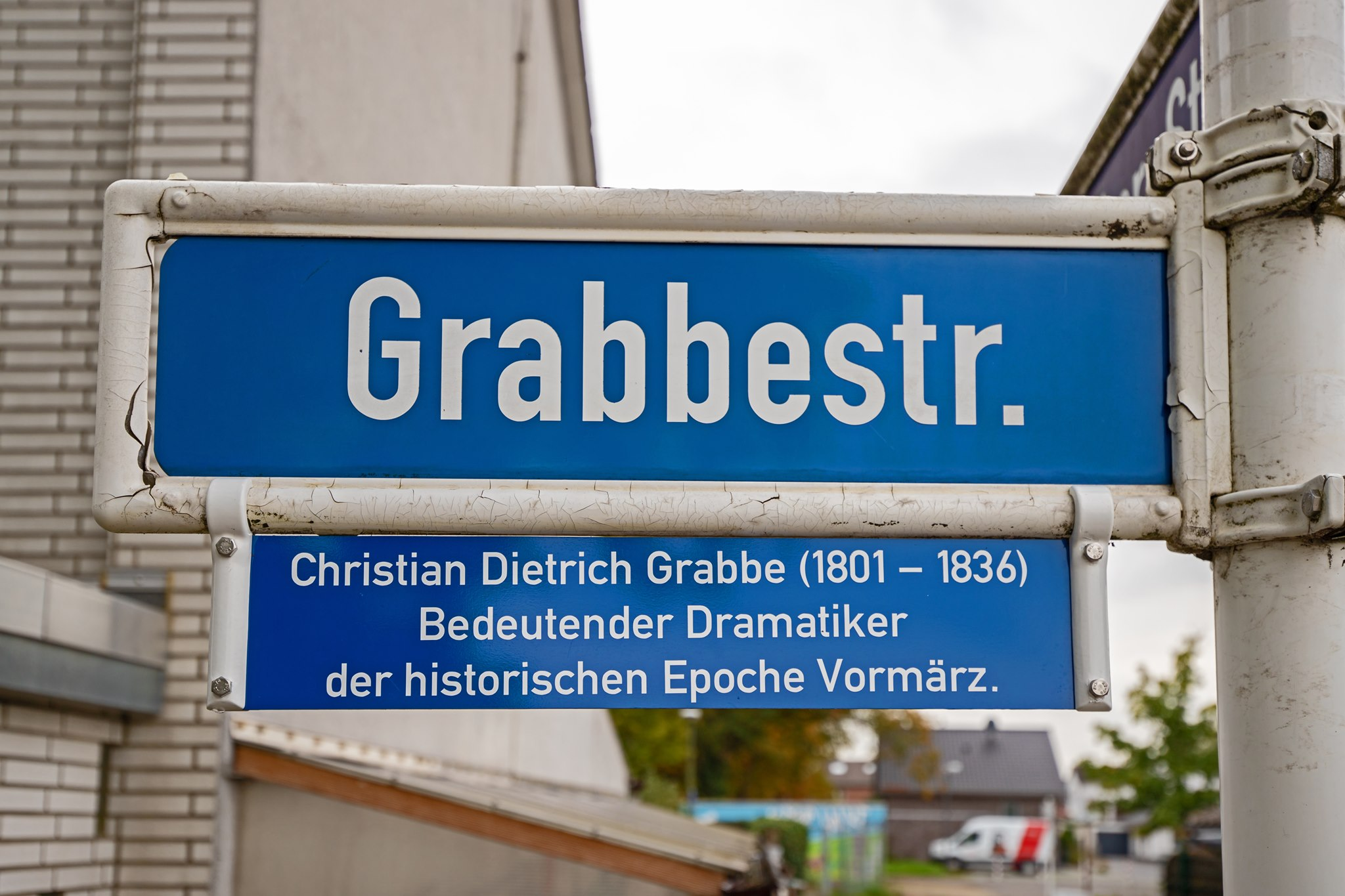 Street sign of the "Grabbestraße" - Marl, North Rhine-Westphalia, Germany